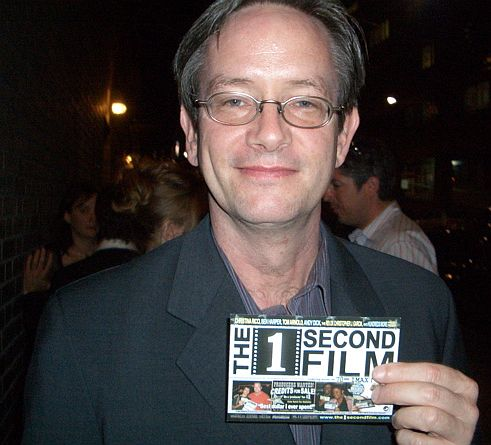 Mark McKinney holding a producer credit for The 1 Second Film at the Toronto Film Festival